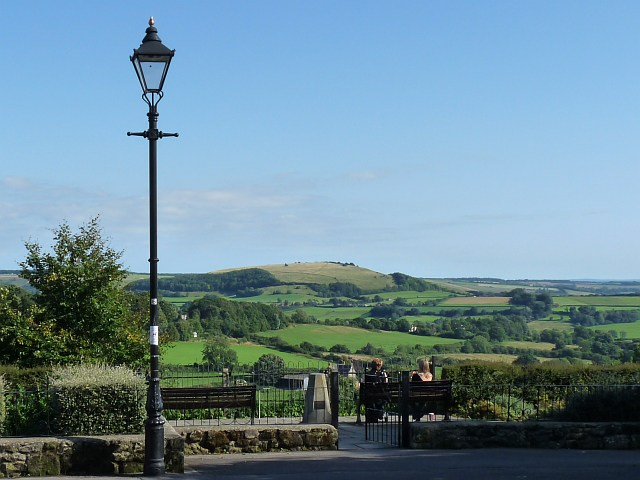 Viewpoint, Park Walk,Shaftesbury